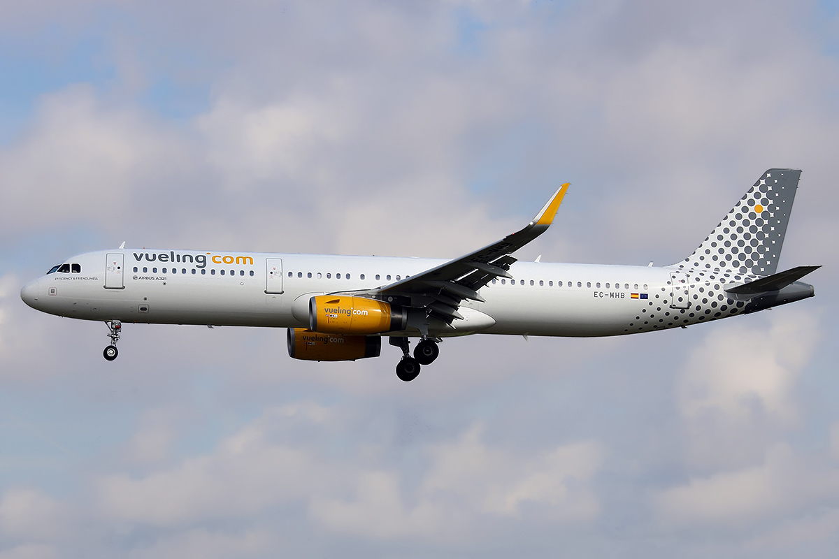 Vueling Airlines Airbus A321-231 at BCN